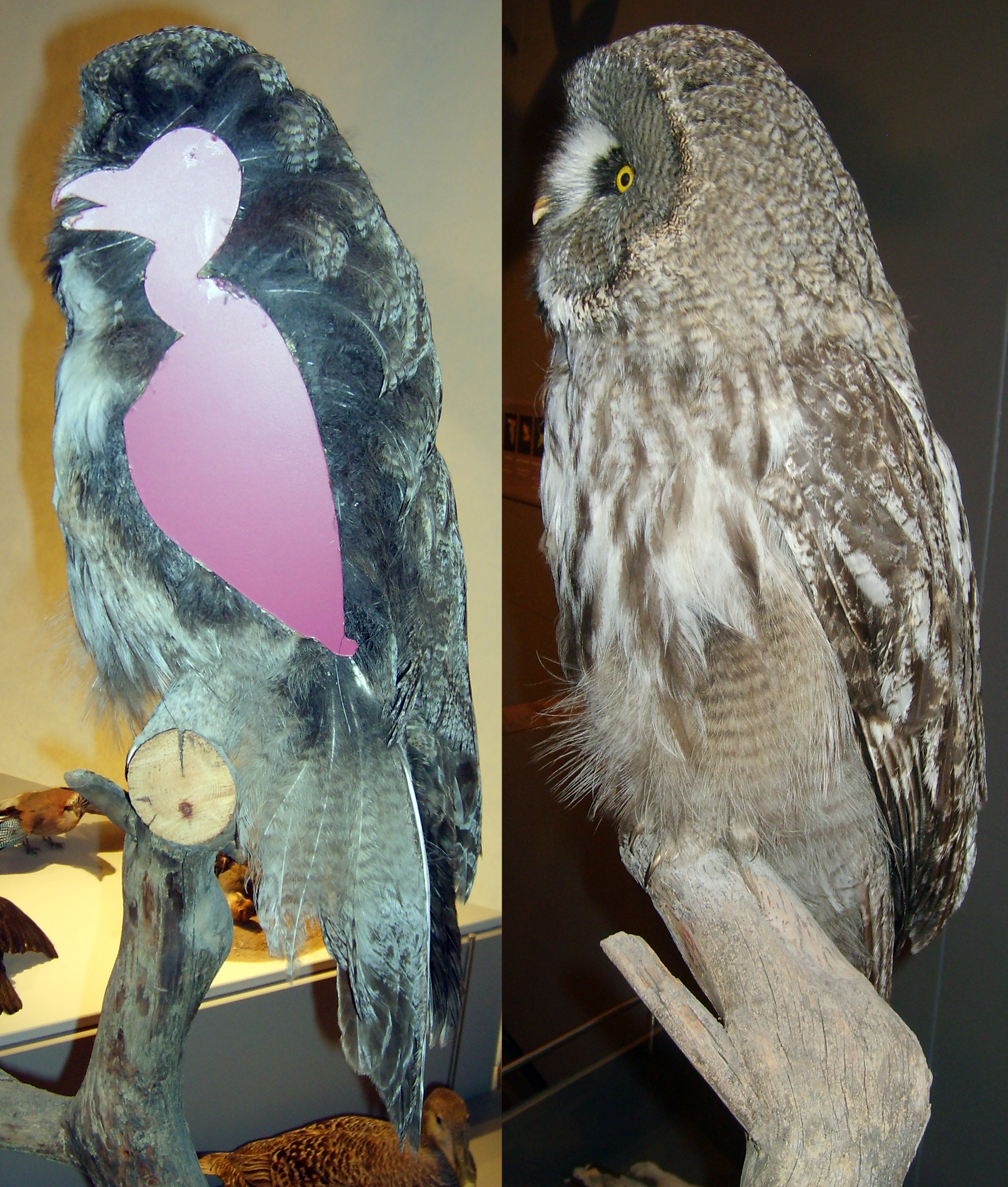 Cross sectioned taxidermied Great Grey Owl, Strix nebulosa, showing the extent of the body plumage, Zoological Museum, Copenhagen.